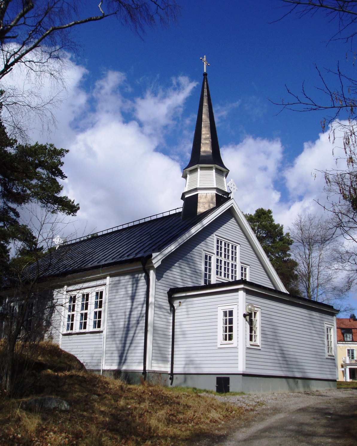 Hagabergs kapell, chapel at Södertälje, Sweden